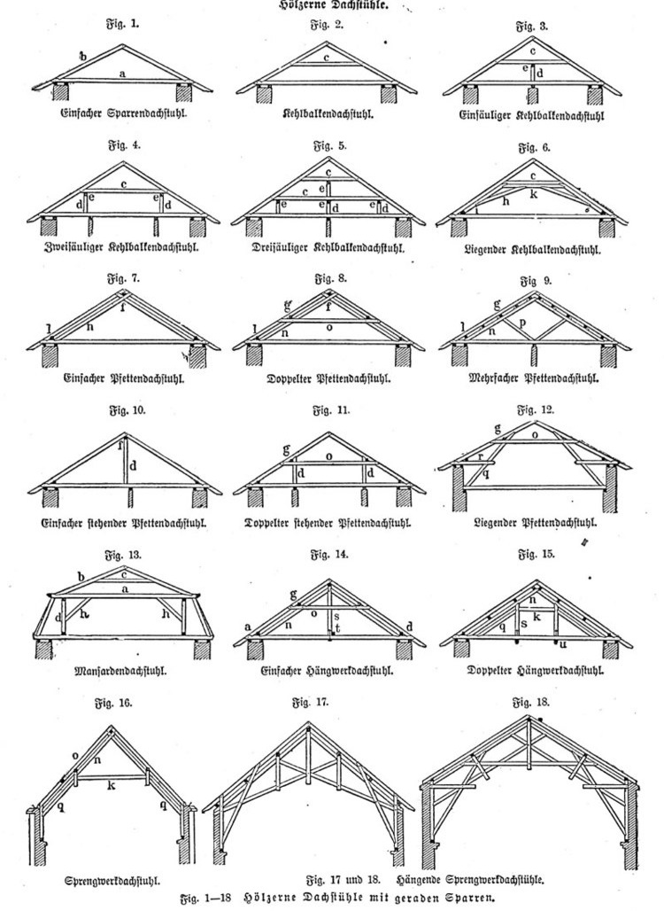 Wooden roof frameworks.